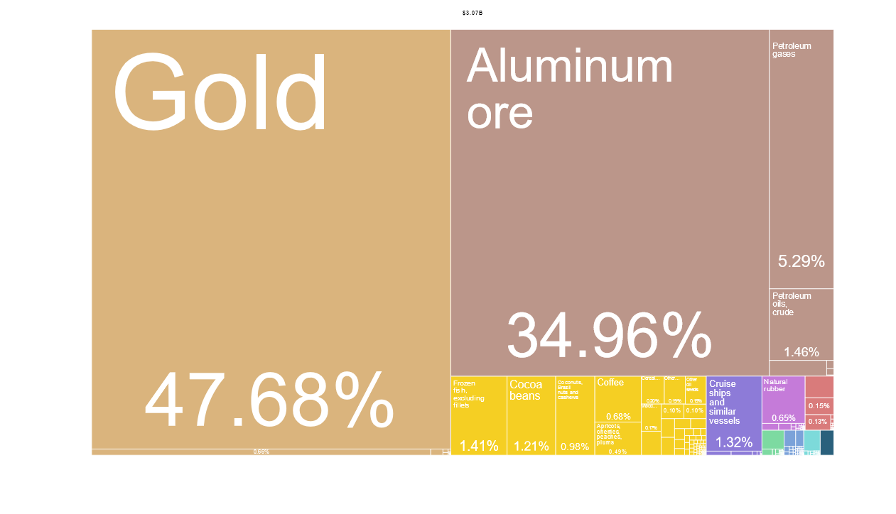 Guinea exports in 2016